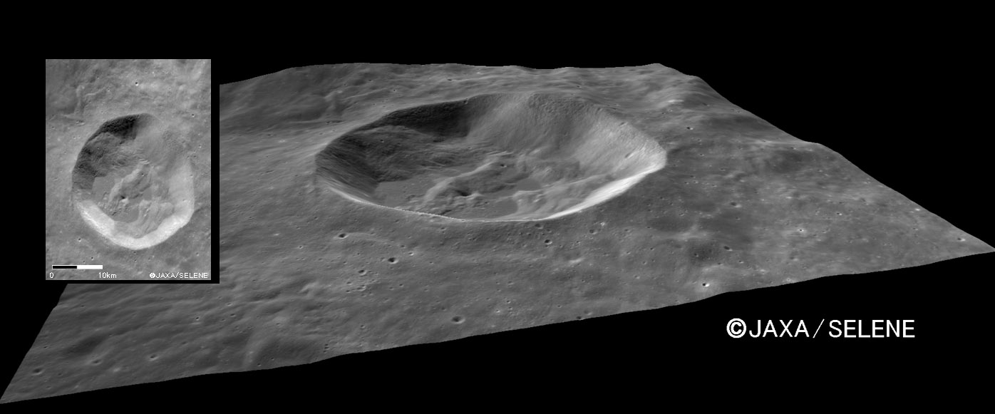 image from JAXA/Selene Photo Gallery